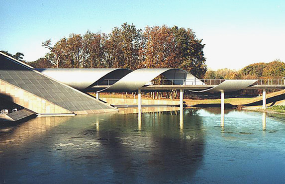 Norbert Müller-Everling Steg durch das Verteidigungsministerium Bonn